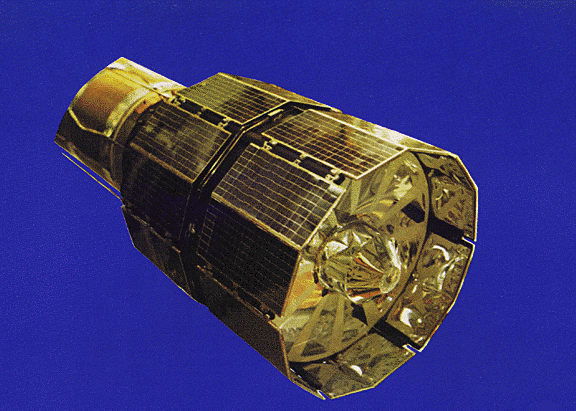 Launched on 17 May 1968, ESRO-2B had an elliptical orbit with (initially) apogee 1086 km, perigee 326 km, and inclination 97.2 degrees. The orbital period was 98.9 minutes. It was the first successful ESRO satellite launch. ESRO (European Space Research Organisation), was the forerunner of ESA. ESRO-2B was also known as Iris. The satellite was mainly intended to study X-ray and particle emissions from the Sun, however, it is credited with some extra-solar observations. The spacecraft was cylindrical in shape, with a 0.76 m diameter and a 0.85 m height. It weighed 80 kg. The failure of the on-board tape recorder in December 1968 (after roughly 6.5 months of operation) was catastrophic for the 2 X-ray experiments. They did not provide any significant data return after that time. The satellite reentered the atmosphere on 8 May 1971.